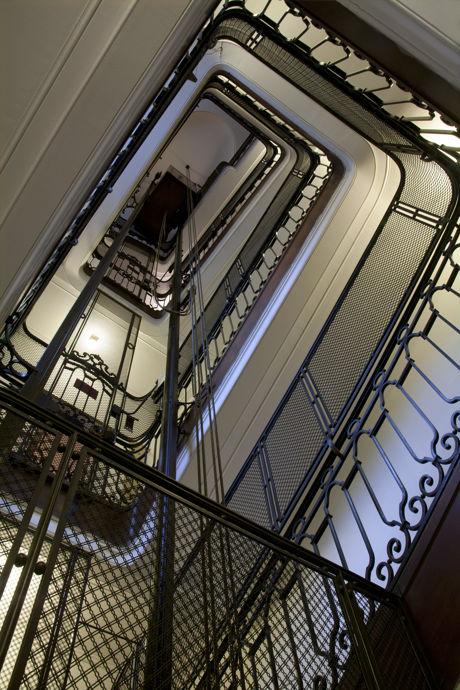 The U.S. Ambassador’s Residence's significant modern technology includes elevator. The residence was built during the late 1920’s by Otto Petschek.